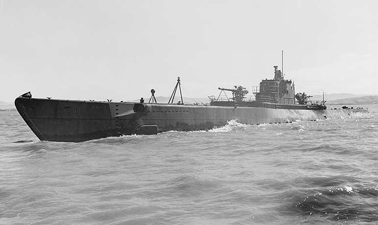 USS Nautilus (SS-168) off Mare Island, 1 August 1943. (Credit: National Archives #: 19-N-49950)